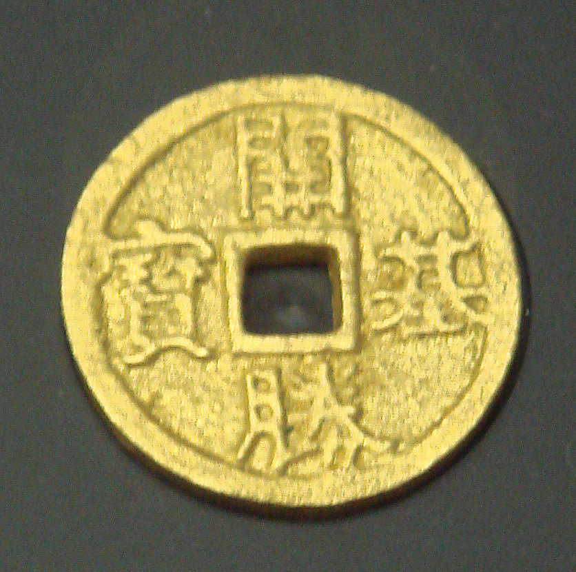 Japanese_gold_coin_760_CE